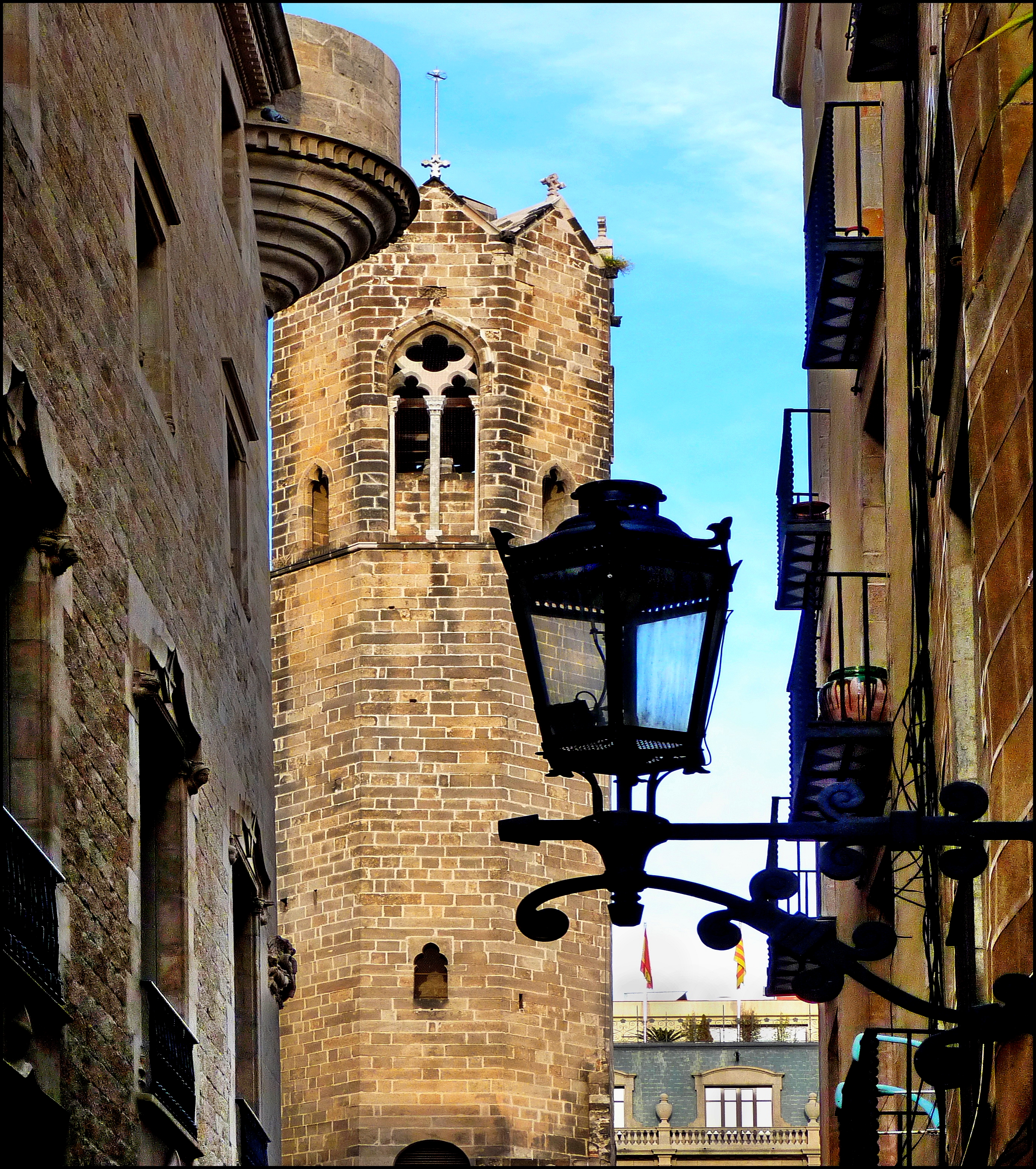 Gothic Quarter, Barcelona